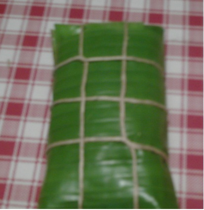 the Common Venezuelan "Hallaca"